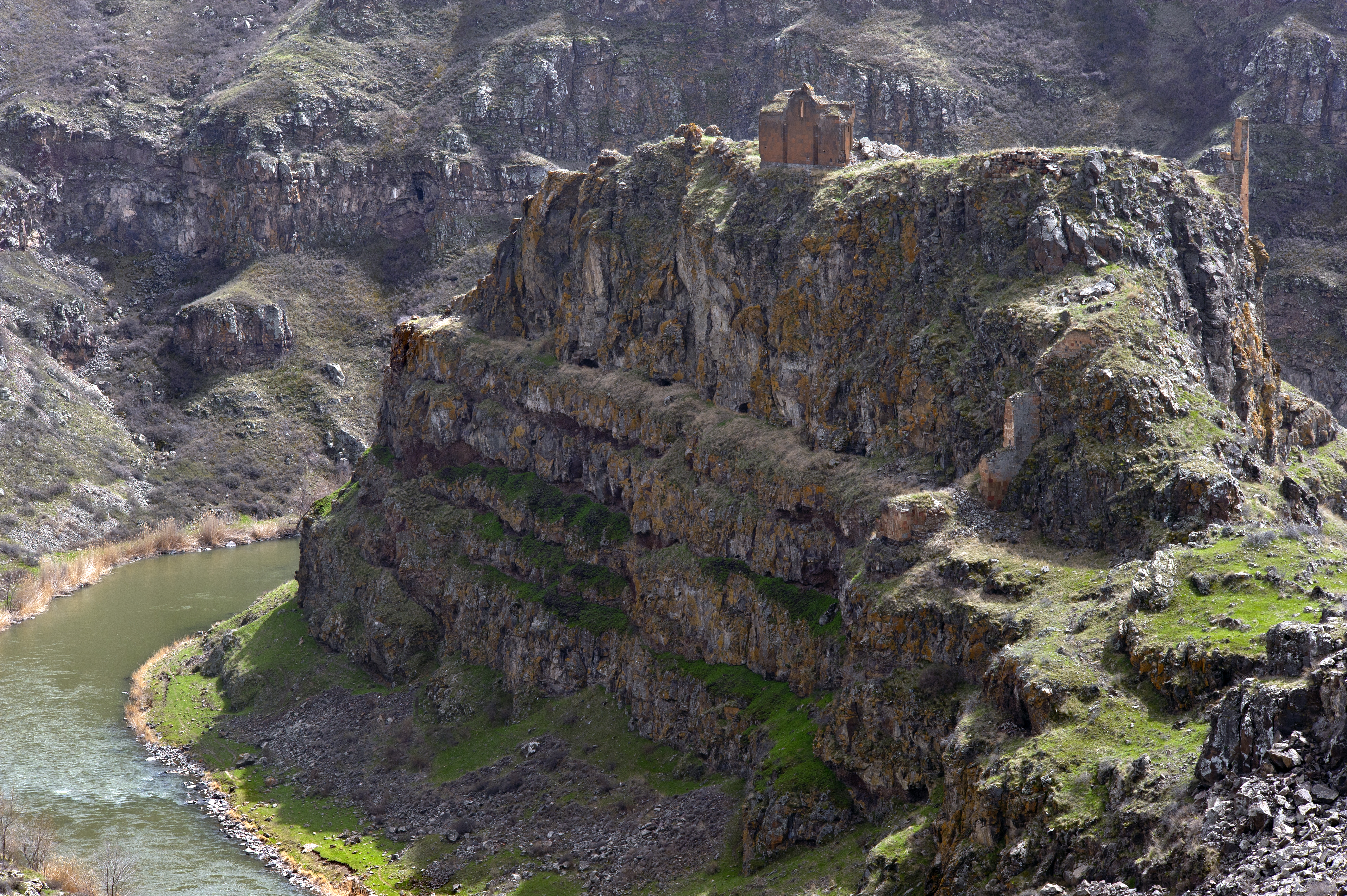 Kizkale church (view from the citadel), Ani, Turkey.